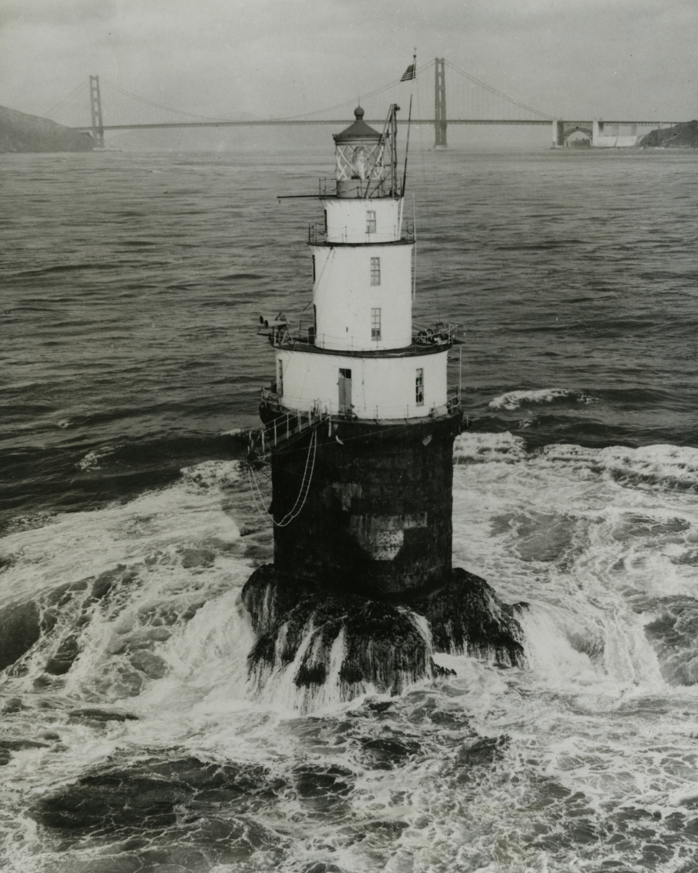 Mile Rocks Lighthouse in 1962, before the upper stories were removed and replaced with a helicopter landing pad.